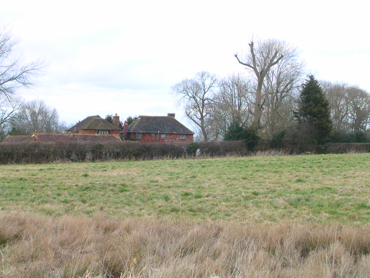 Stretham Manor by the River Adur near Small Dole, West Sussex, England.